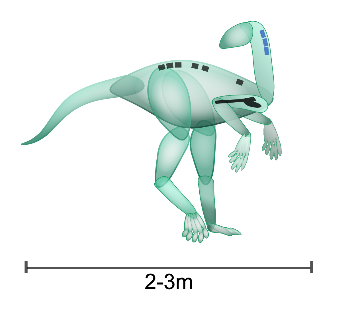 Rendition of possible appearance of the dinosaur genus Nyasasaurus from the Middle Triassic, possibly the earliest known dinosaur. Black portions represent the partial skeletal fragments (a humerus and six vertebrae) from one specimen blue portions represent fragments from a second specimen (three cervical vertebrae) on which the current likely form of the animal is based.